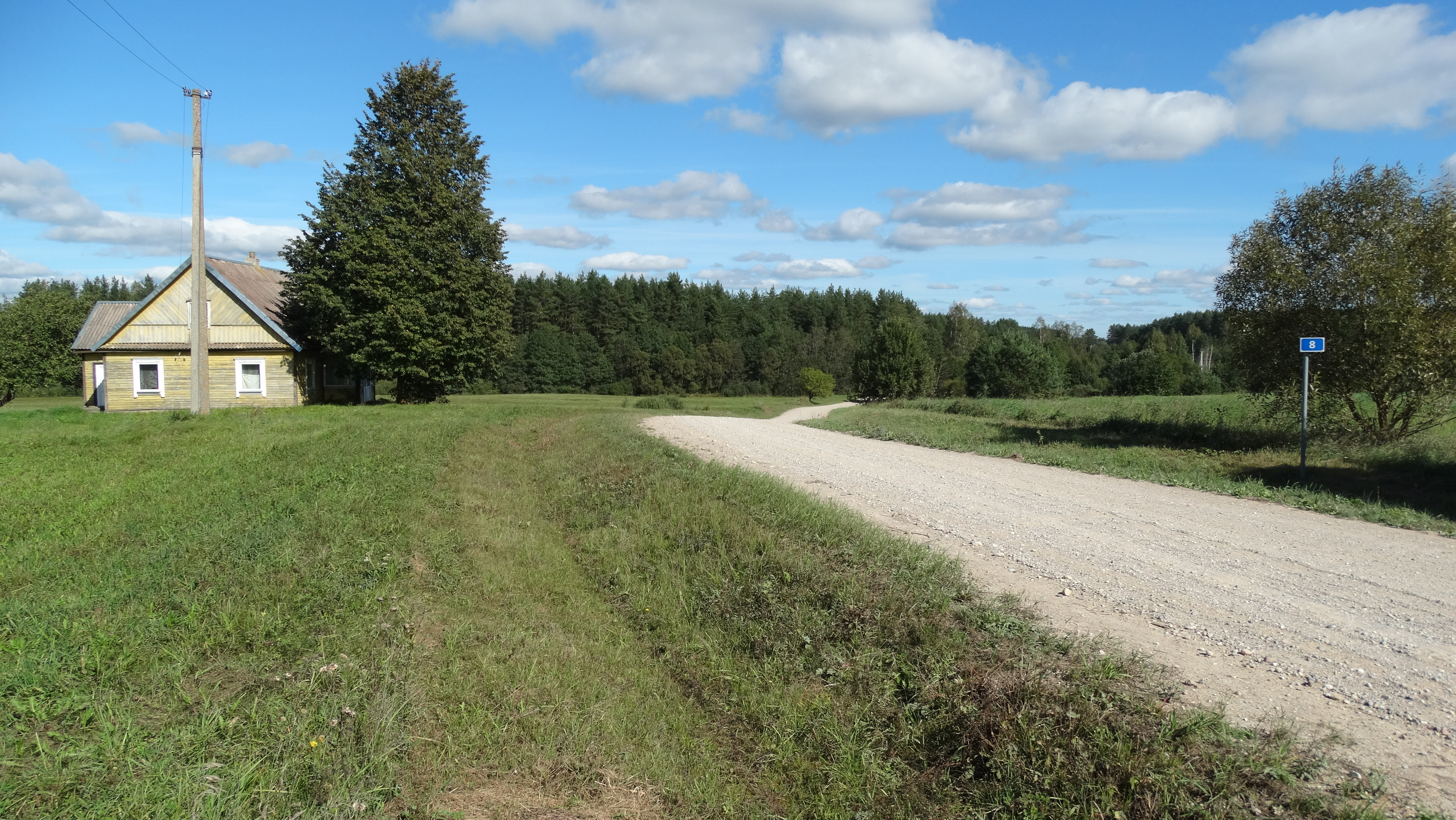 Nariūnai, Zarasai District, Lithuania